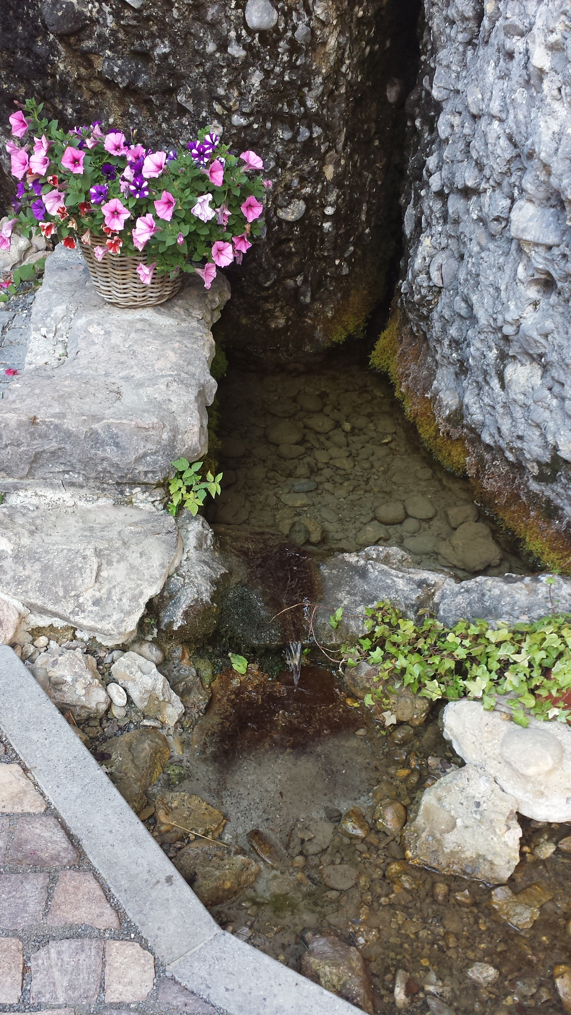 The Felsenkapelle St. Michael at Rigi Kaltbad, Switzerland